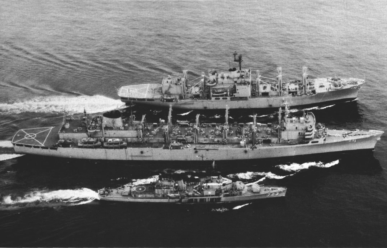 The U.S. Navy fast combat support ship USS Sacramento (AOE-1) refuels the combat stores ship USS Mars (AFS-1) and the destroyer USS Walke (DD-723) during a Western Pacific deployment, circa 1966.